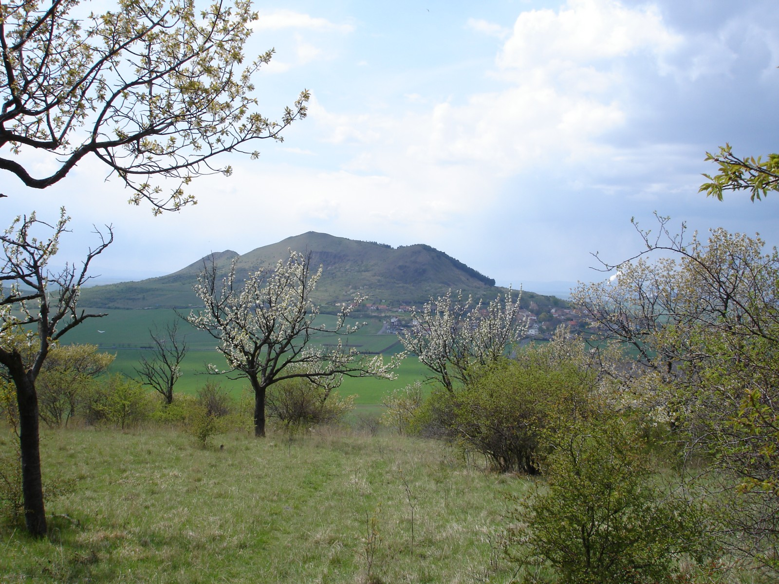 view to mountain Raná in České středohoří, Czech Republic